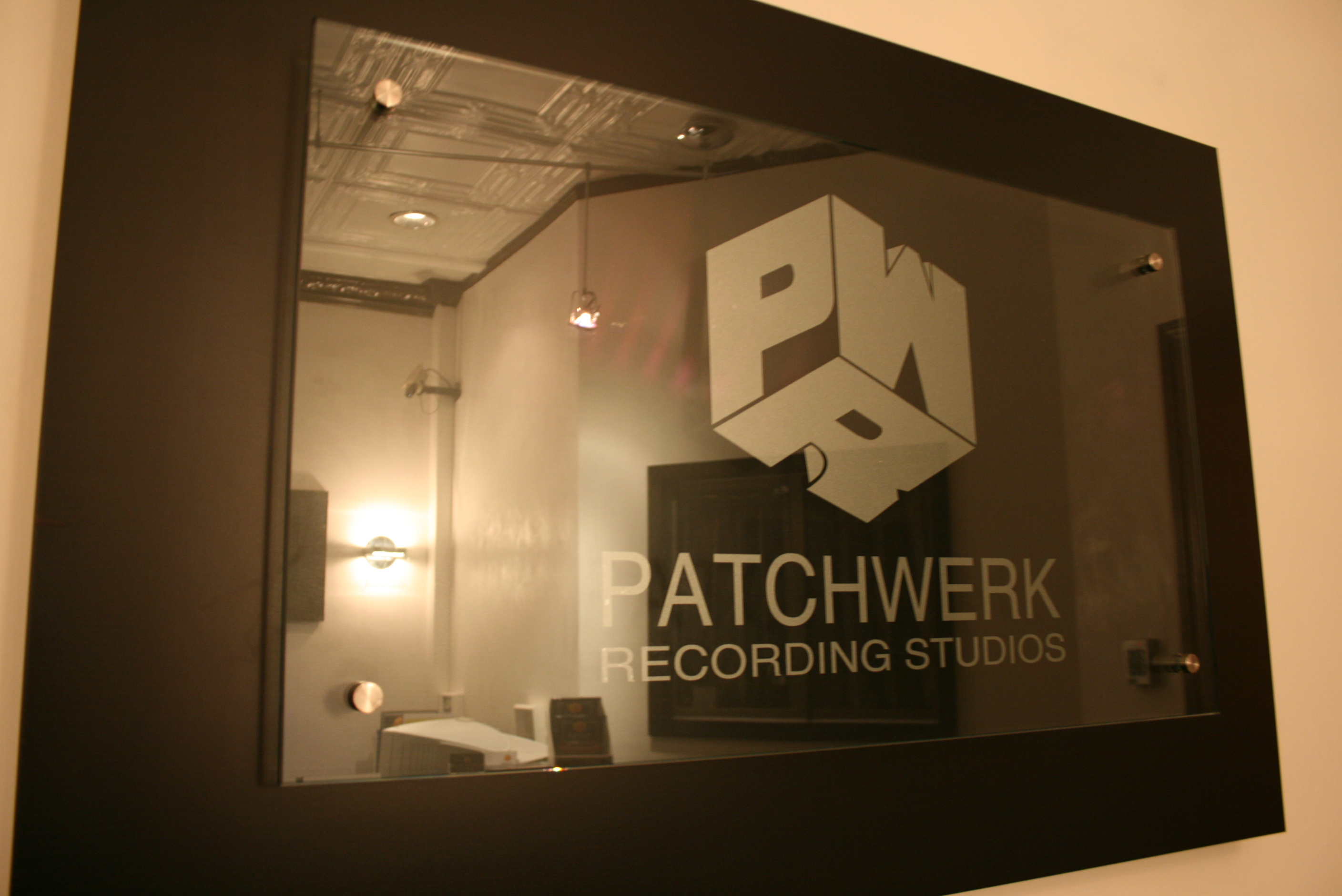 A picture of the Patchwerk sign hanging in the entrance of the studios.